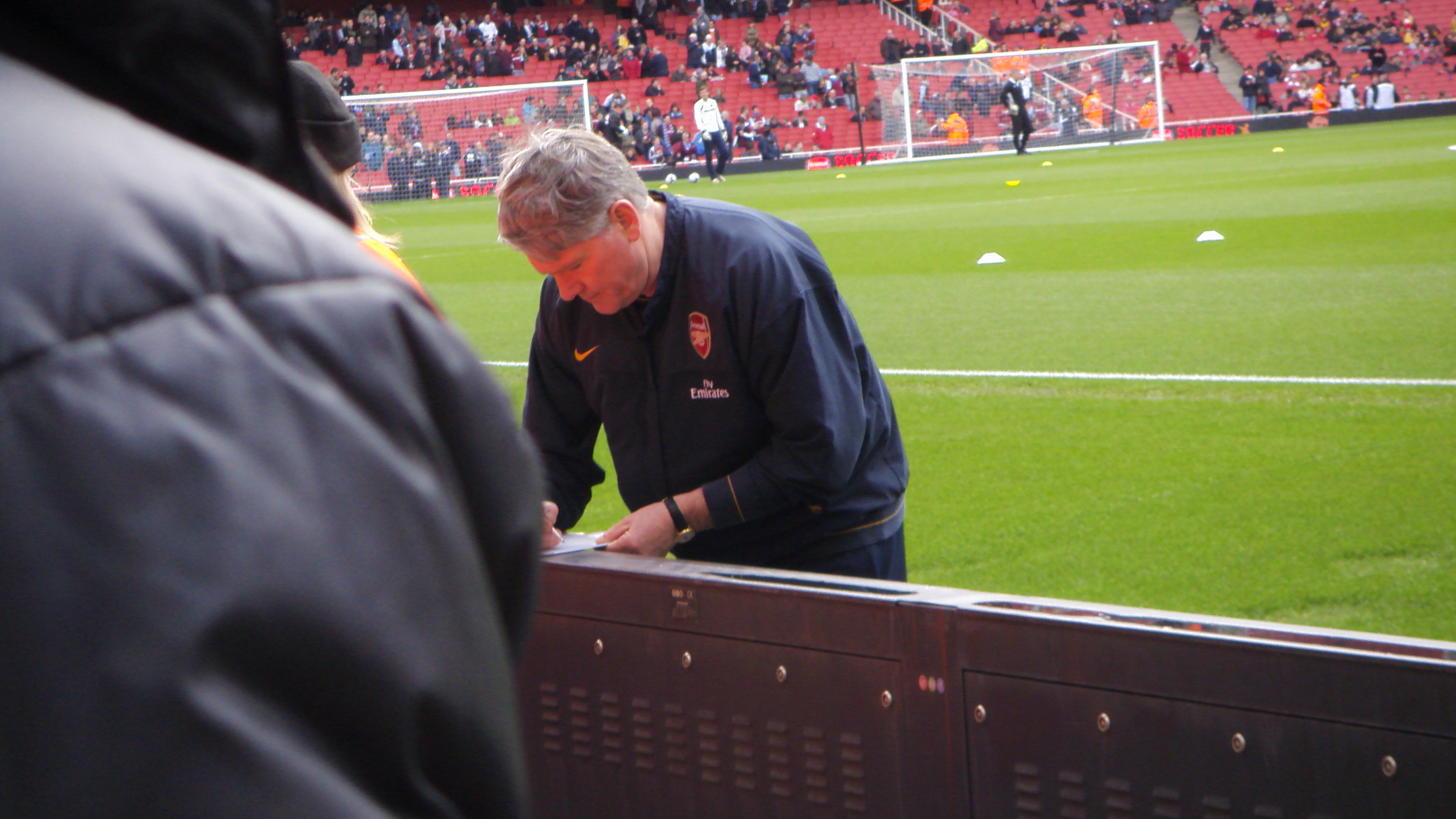 pat rice signing for arsenal fans